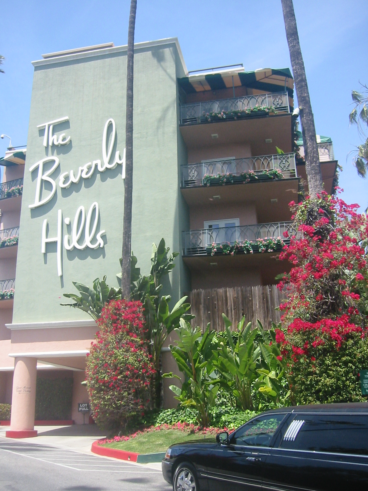 Beverly Hills Hotel in Beverly Hills, California. Wing designed by Paul R. Williams (c. 1950s).